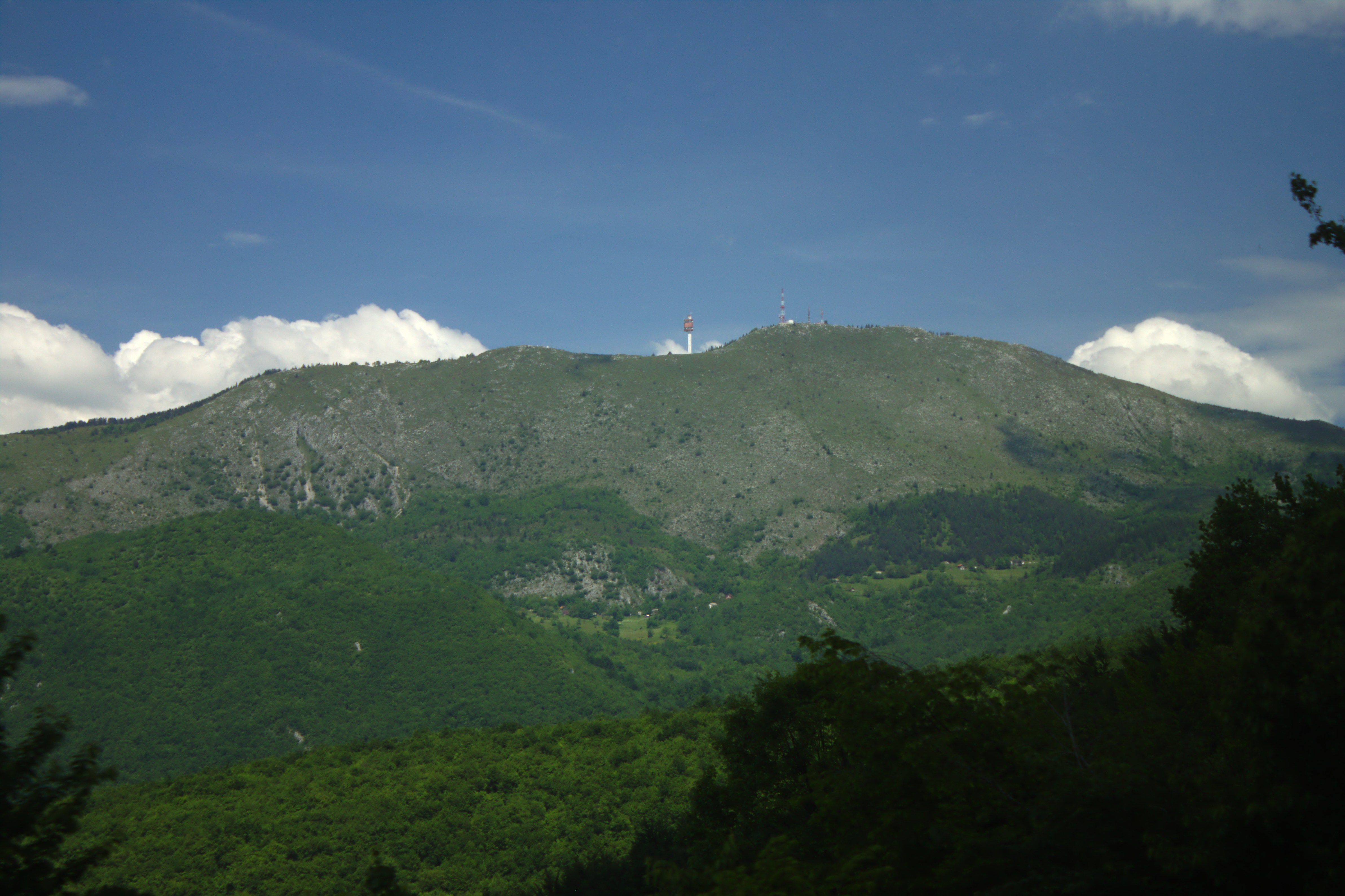 Trebević hill seen from the road connecting eastern Sarajevo with the rest of Republika srpska, BiH